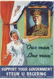 Stamp of South Africa, 1940, and figuring Jan Smuts